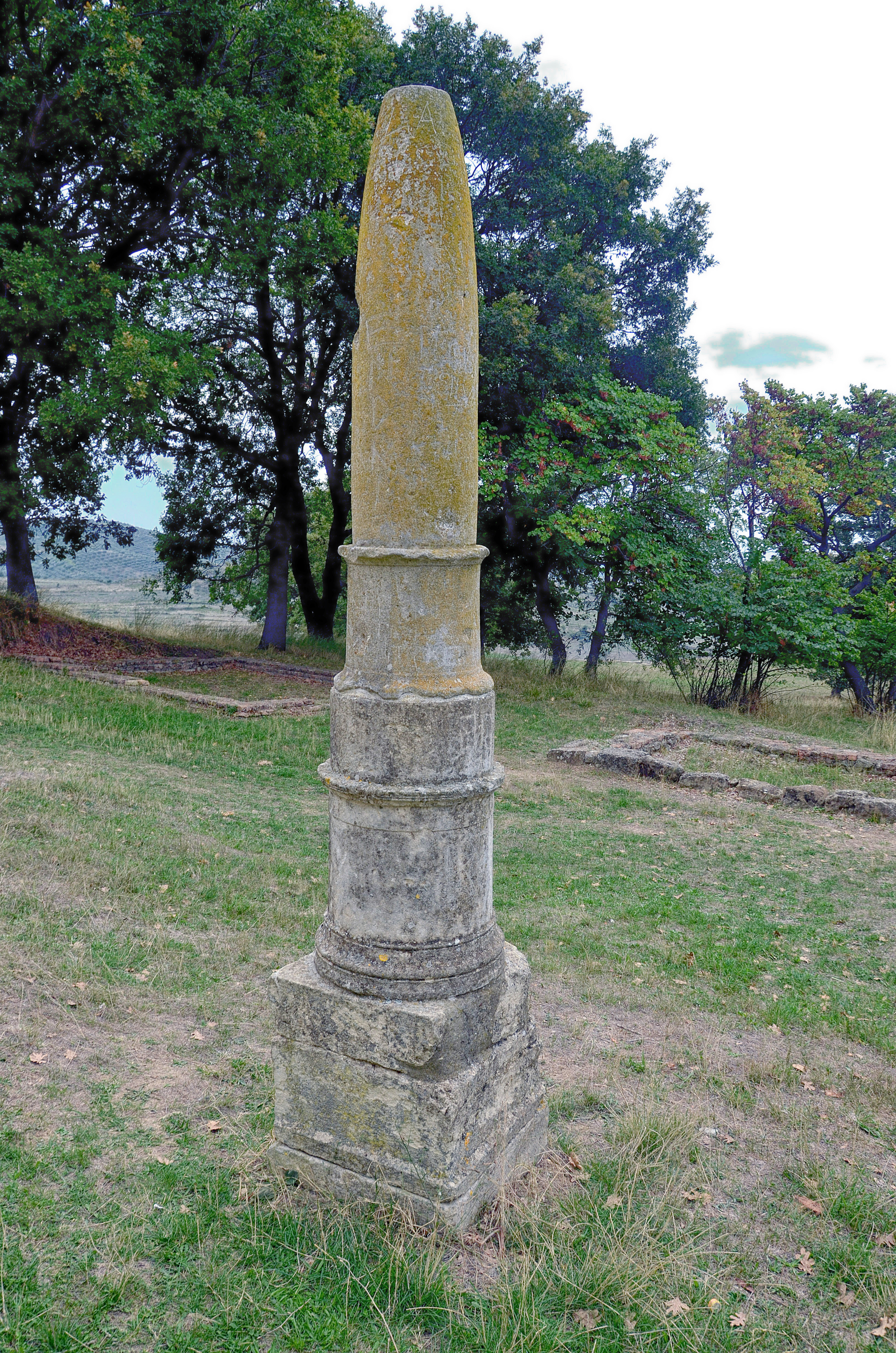 The Apollon Column in Apollonia, Albania